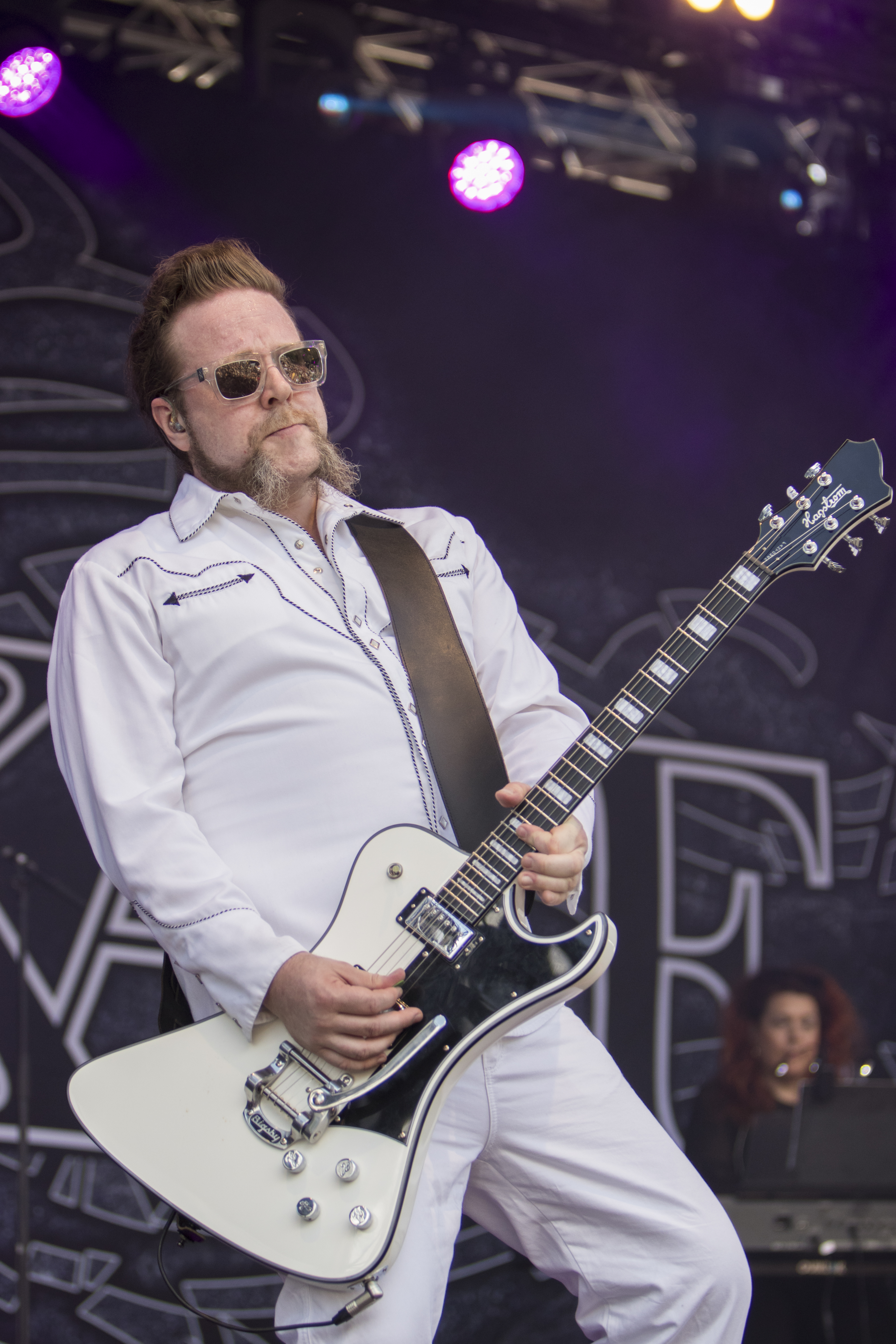 Viikate at John Smith 2019 festival in Peurunka, Finland